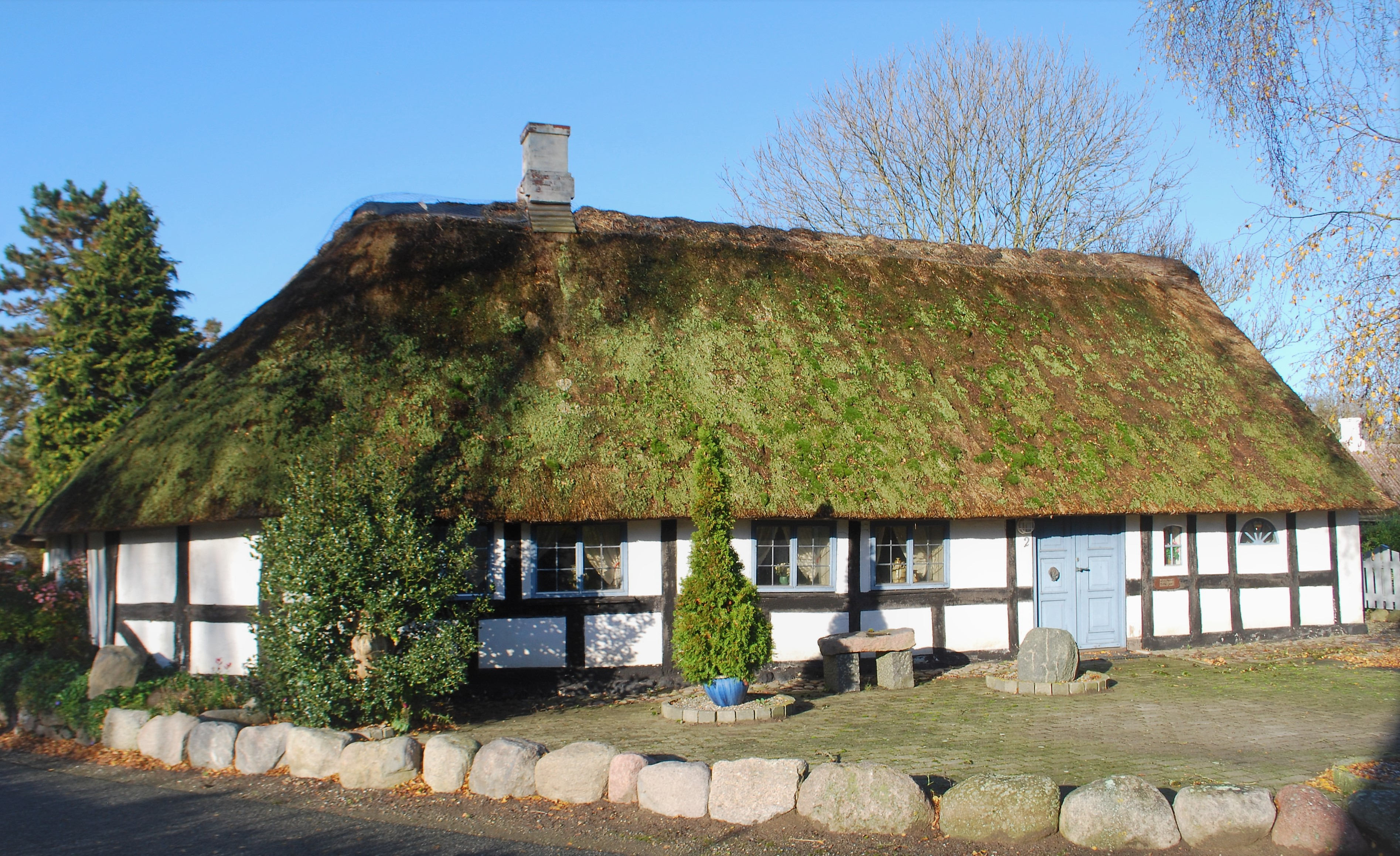 Skovby, Ærø, Denmark